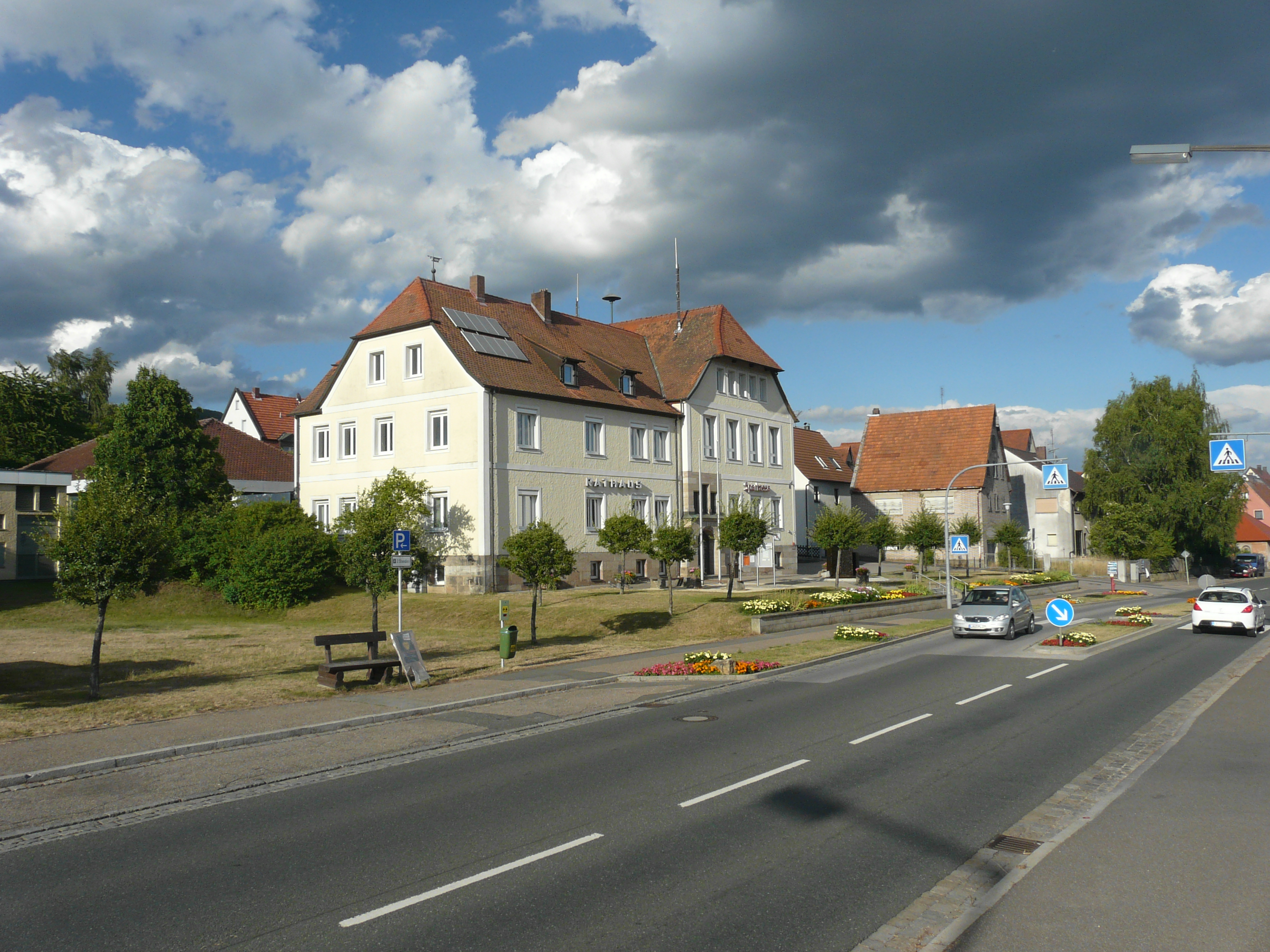 The town hall of Reichenschwand in Middle Franconia, Bavaria, Germany.